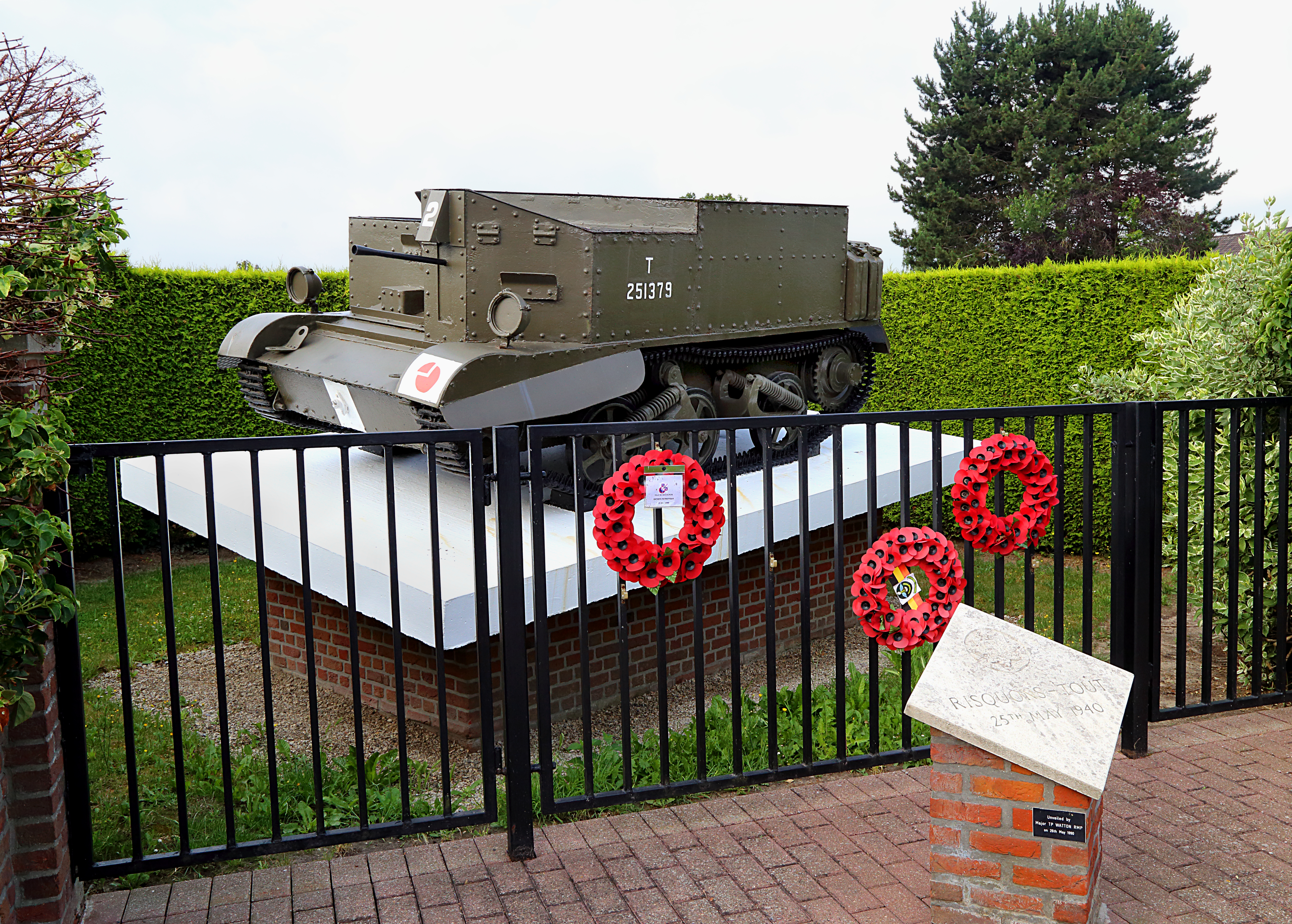 Memorial inaugurated on 26th May 1990, composed of a stone and a Bren Gun Carrier Mark 1, rue du purgatoire in Mouscron, Belgium. Recalling the « clash » that took place during the Second World War, between May 22nd and 27th, 1940, between British and German soldiers. It killed 35 people, 18 British, 12 Germans and 5 civilians.